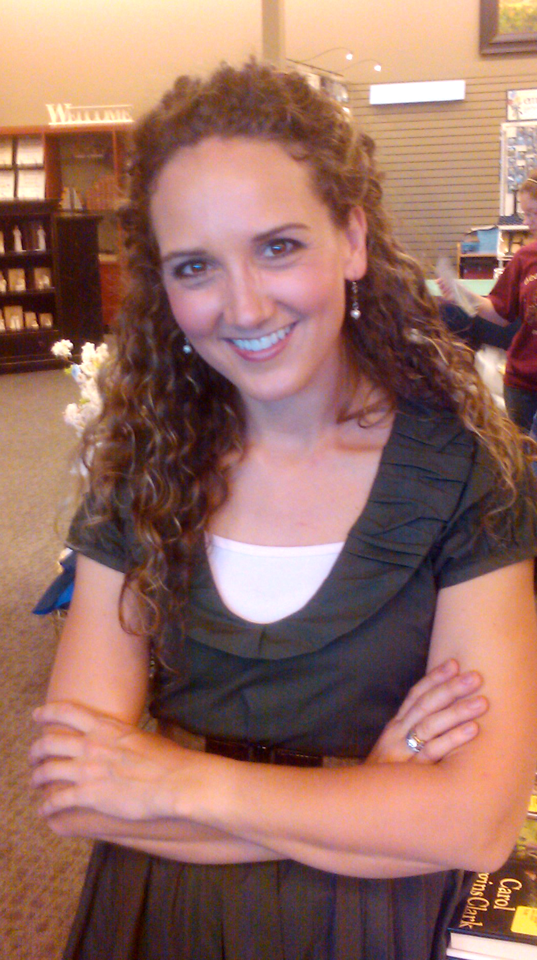 Jenny Oaks Baker at an album signing in Orem, Utah on July 2010